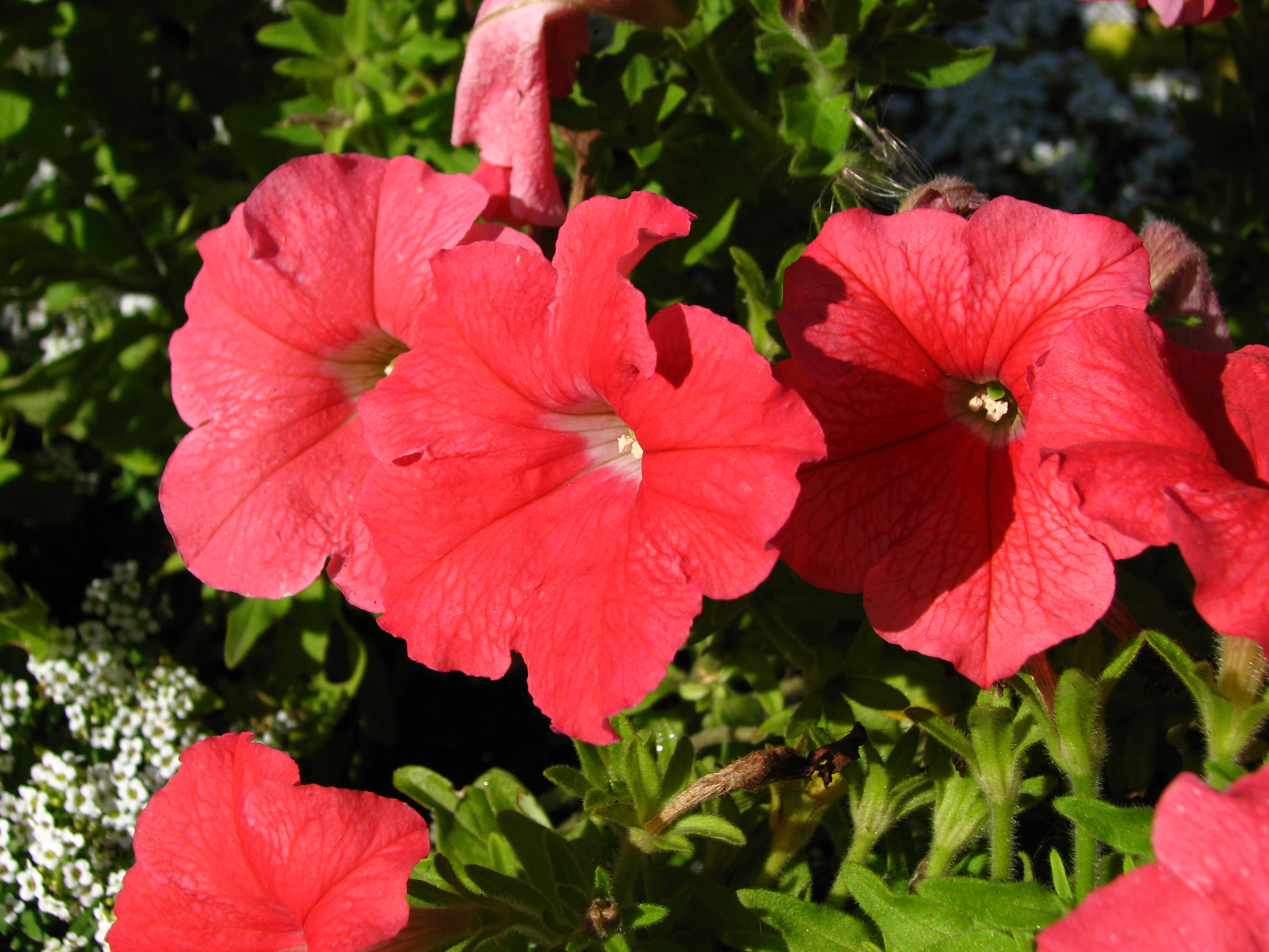 Flower beds in park Kolomenskoye (Moscow).